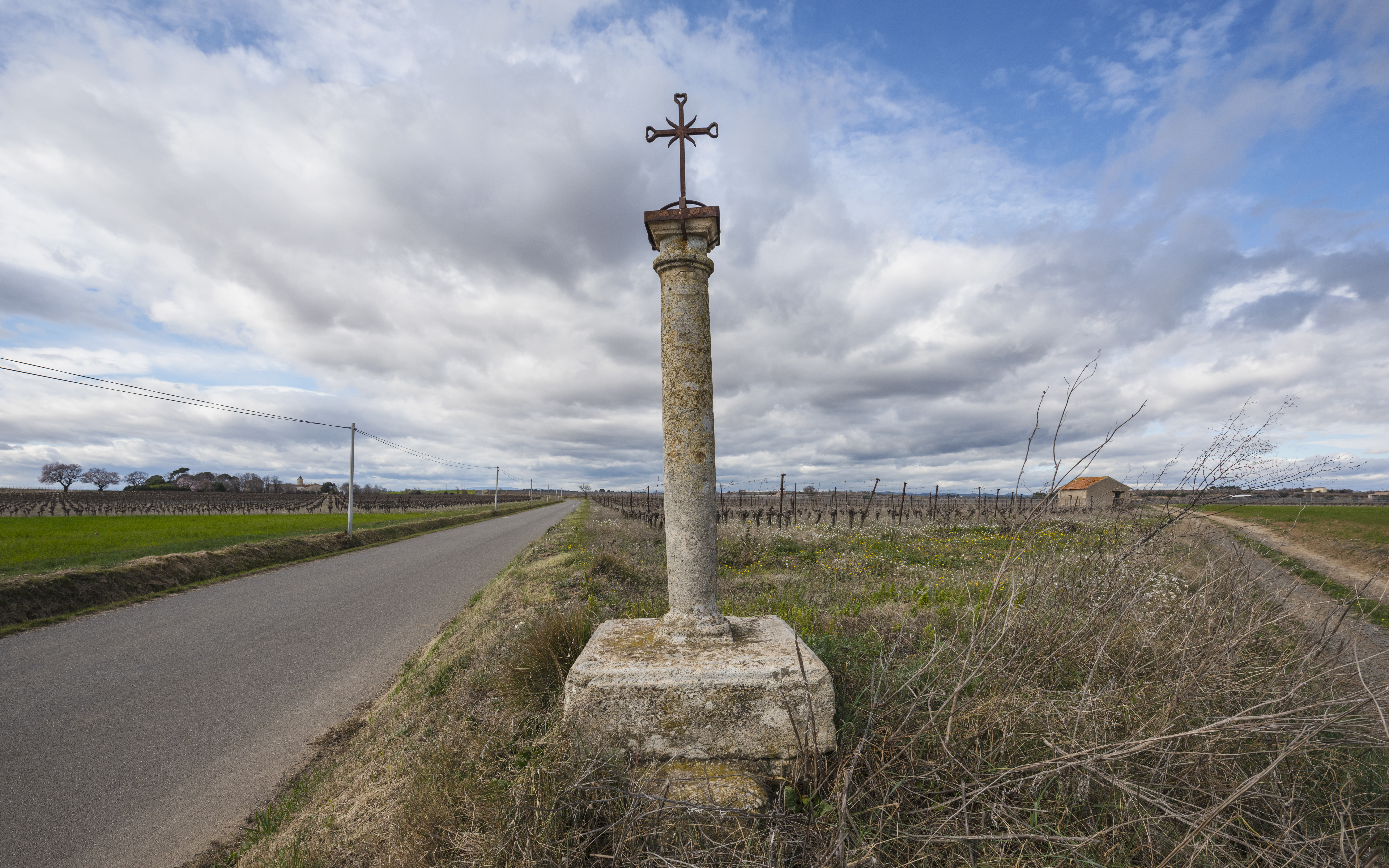 Christian cross on the border of the D18 road near Saint-Thibéry, Hérault, France